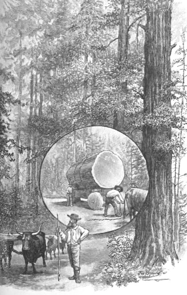 Page from book: "Mexico, California and Arizona; being a new and revised edition of Old Mexico and her lost provinces" (1900)